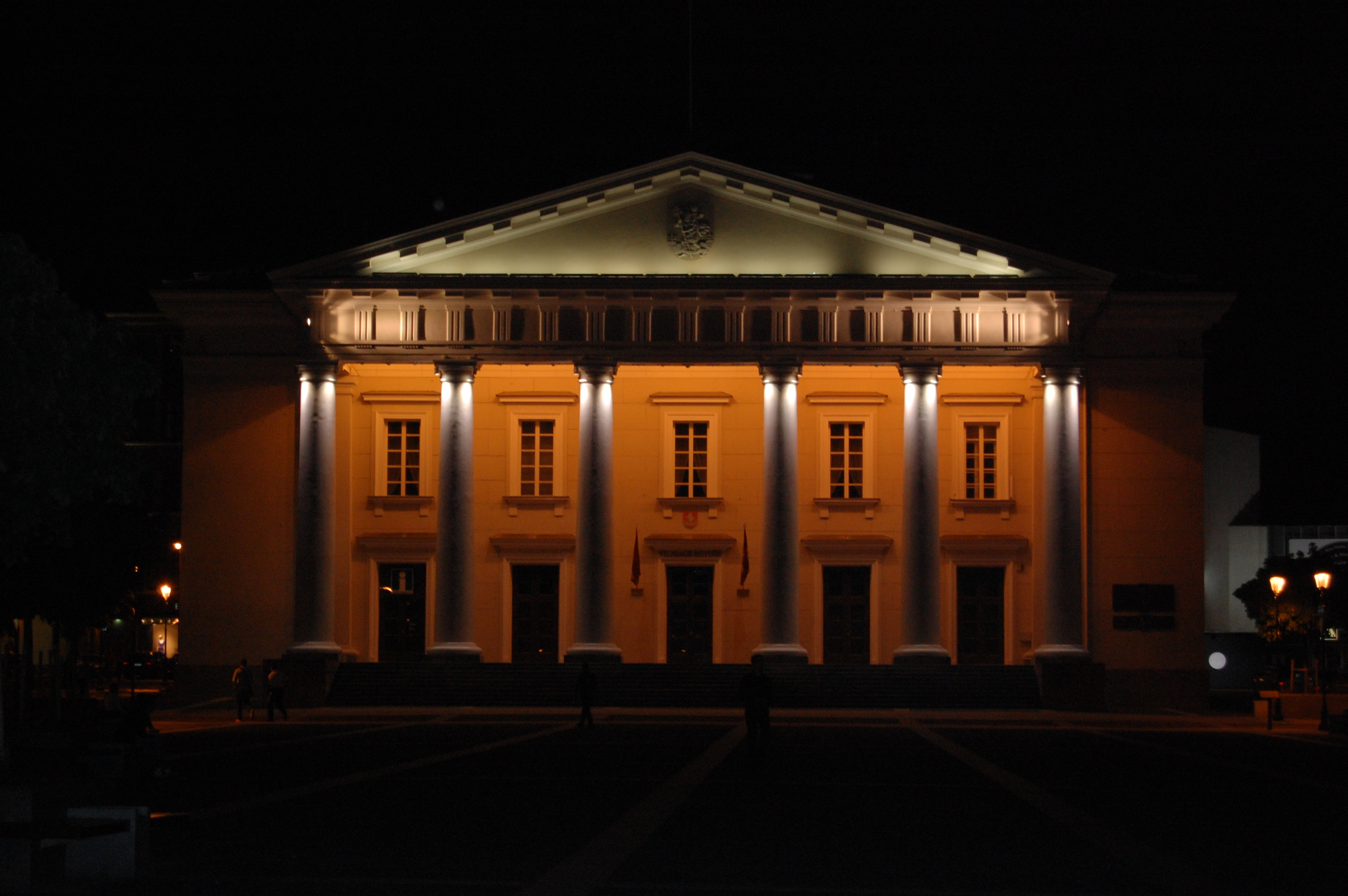 Vilnius City Hall.